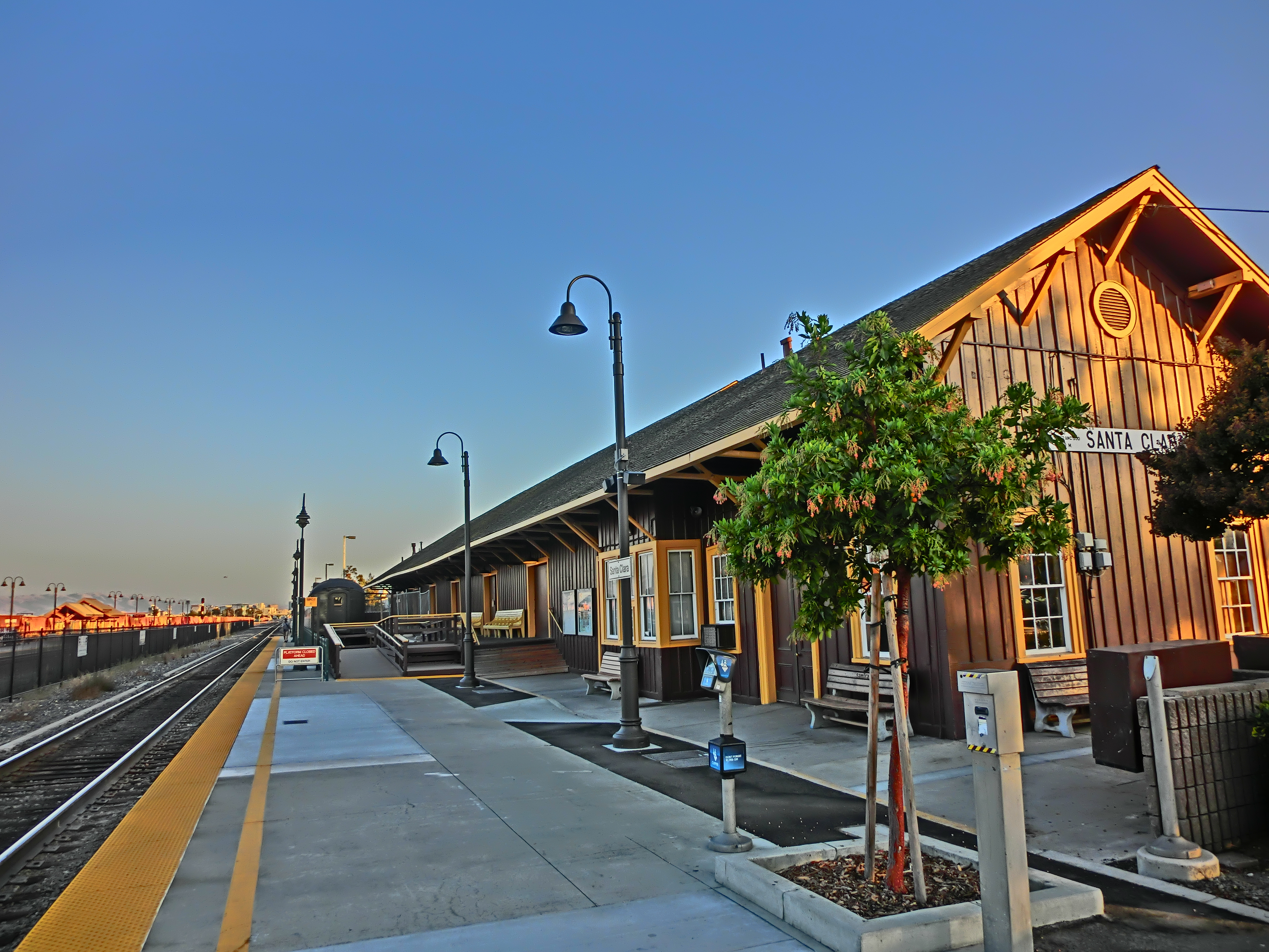 The Santa Clara Depot, built by the San Francisco and San Jose Railroad in late 1863, was the oldest continuously operating railroad depot in the state of California until the ticket office was closed in May 1997.